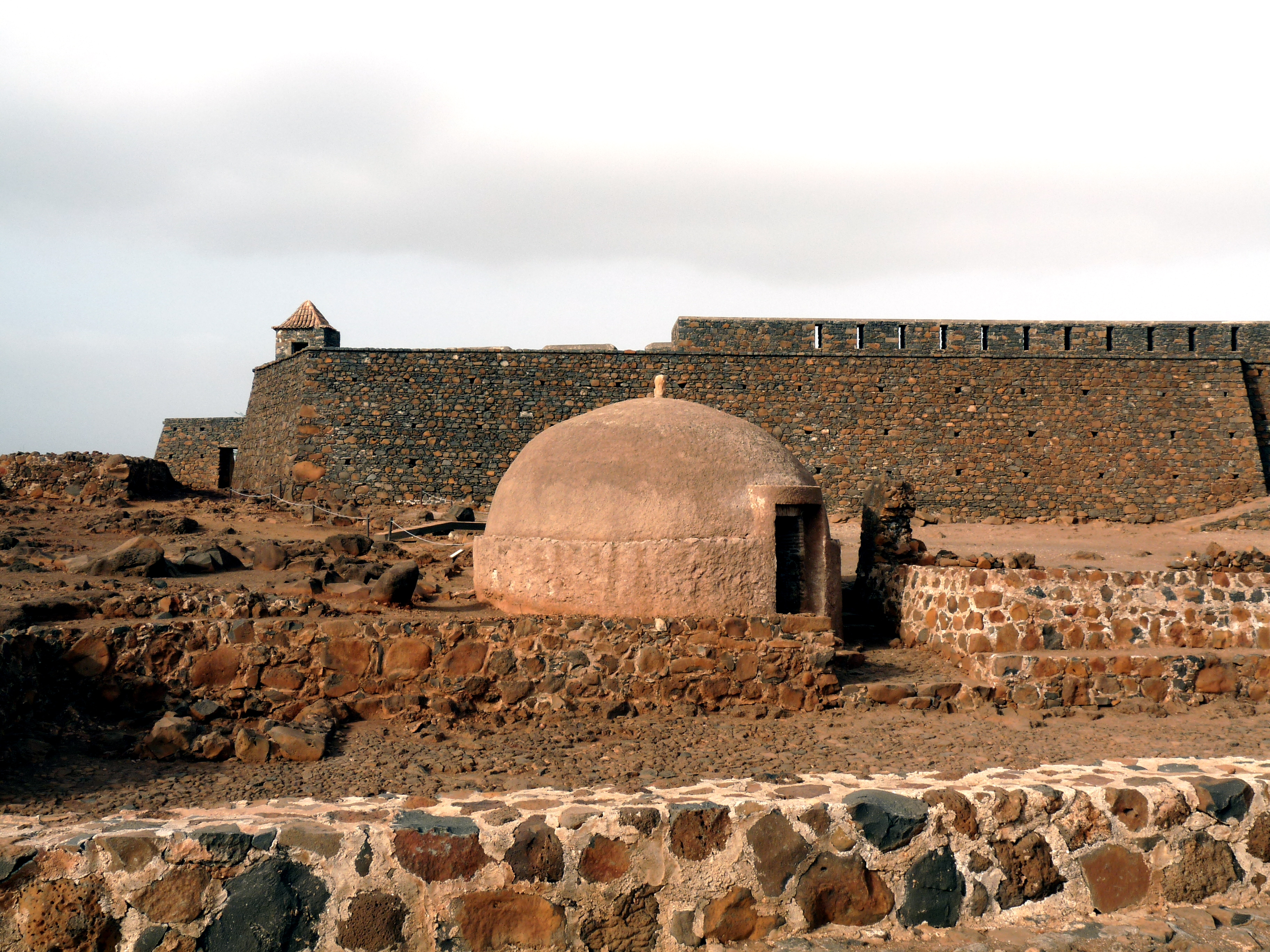 São Filipe Fortress in Cidade Velha, Cabo Verde